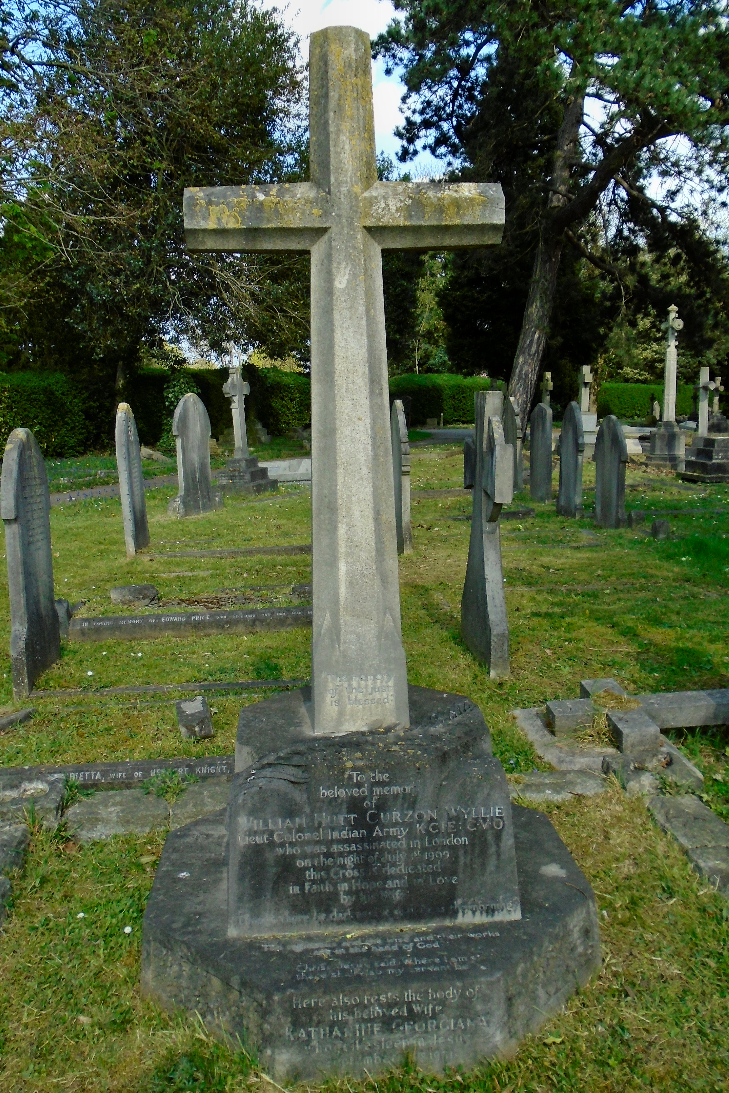 Richmond Cemetery, William Hutt Curzon Wyllie (1848–1909) memorial. William Hutt Curzon Wyllie Lieut-Colonel Indian Army KCIE CVO who was assassinated in London on the night of July 1st 1909.